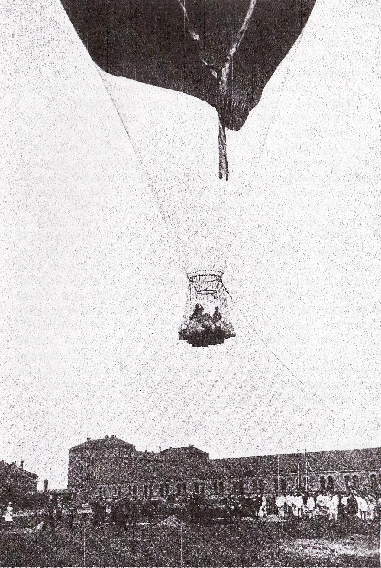 The balloon “Preussen” (Prussia), at the beginning of its record ascent to an altitude of 10,800 meters. Berlin-Tempelhof, July 31, 1901